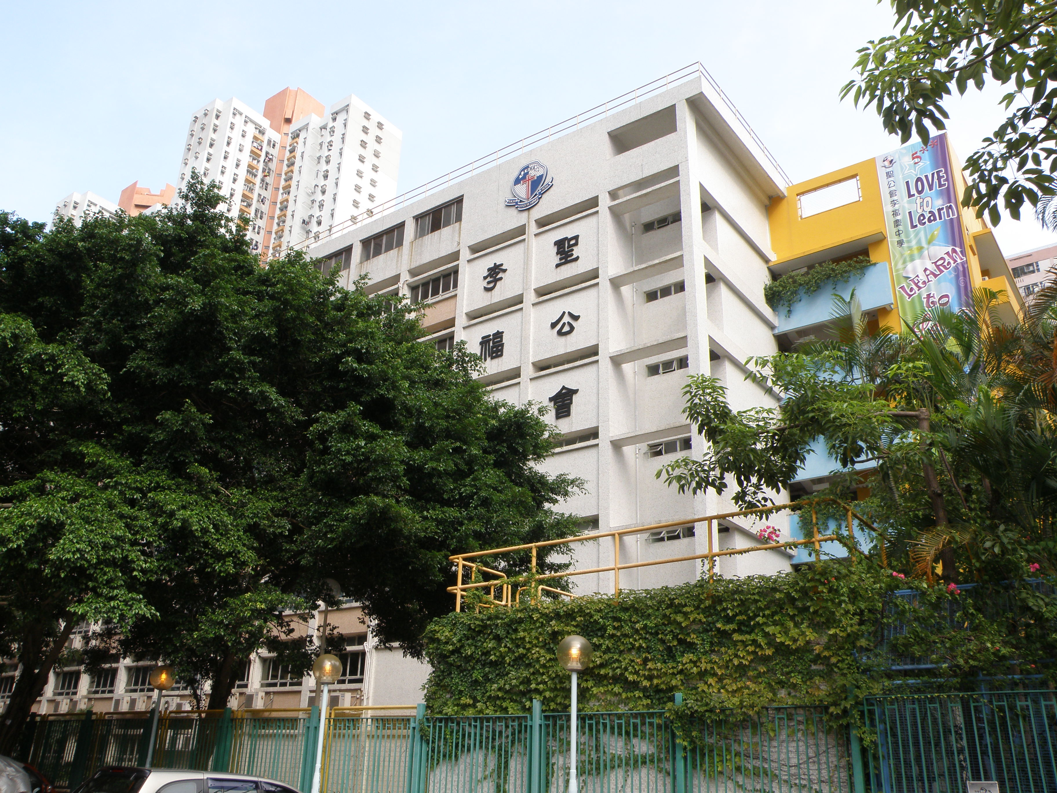 SKH Li Fook Hing Secondary School in Chai Wan, Hong Kong.